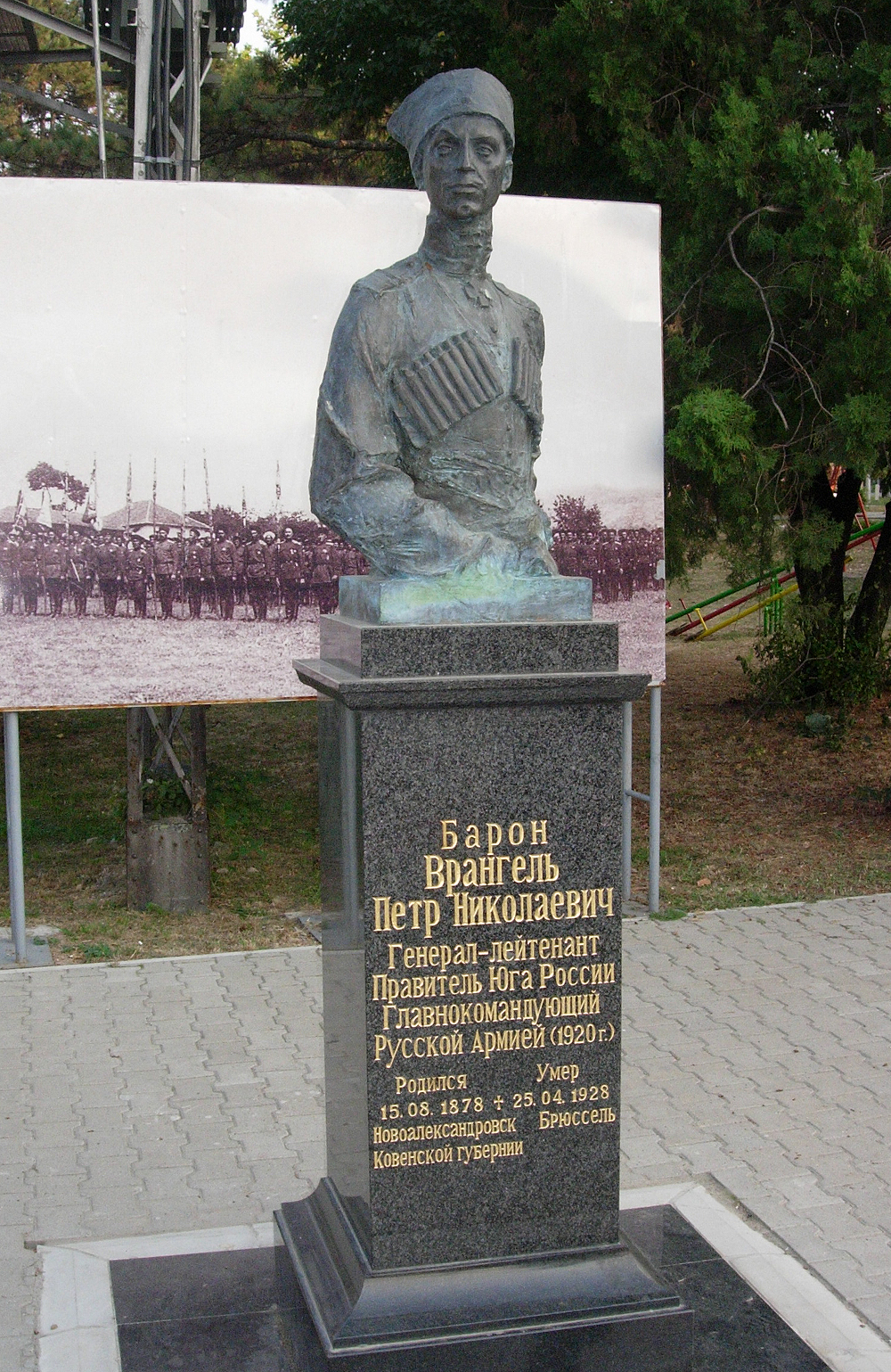 Statue erected in honor of the Russian General Pyotr Wrangel in Sremskie Karlovci, Serbia